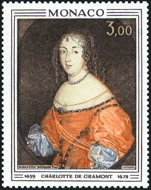 Stamp of Charlotte de Gramont